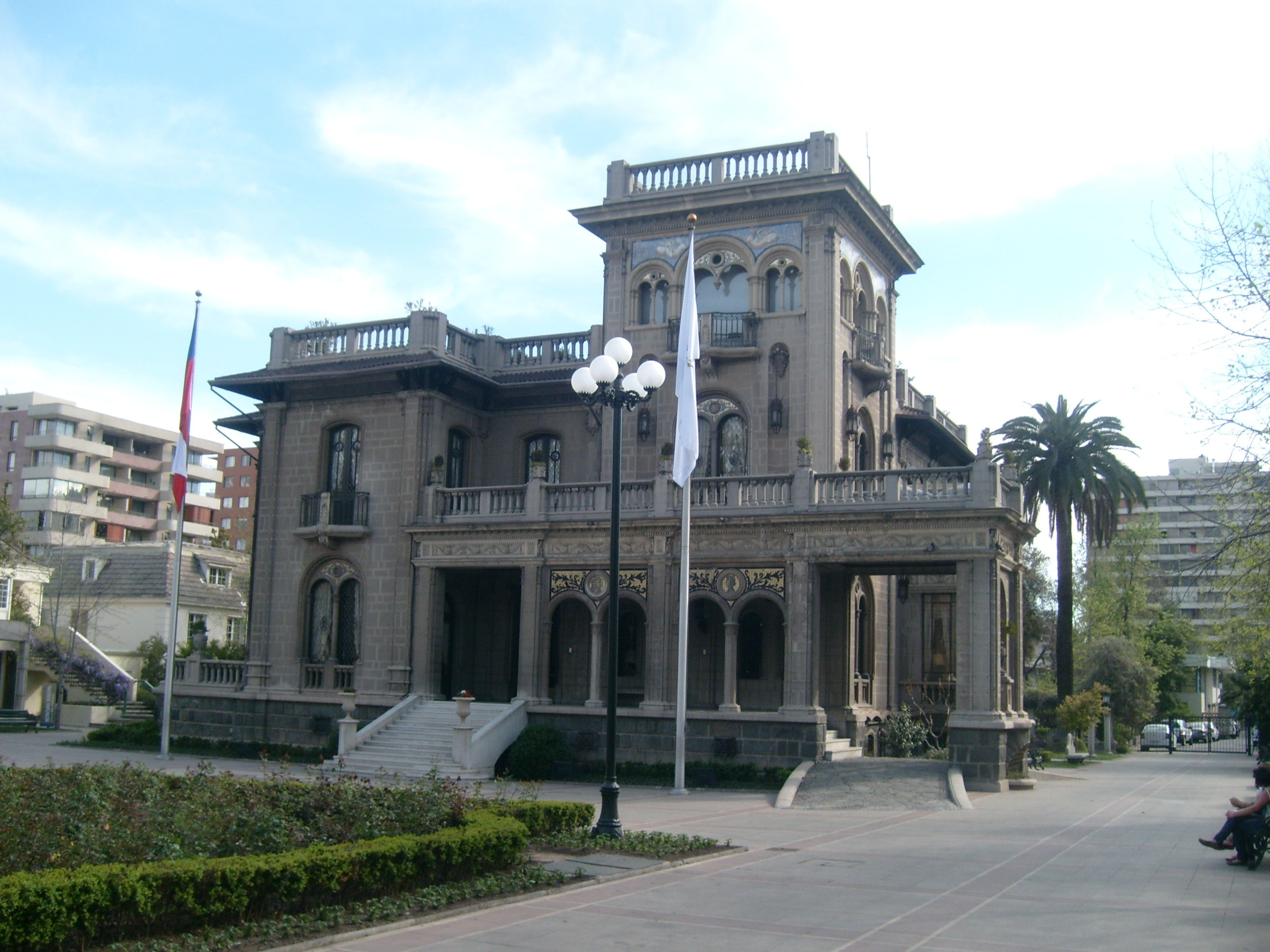 Falabella Palace, I. M. Providencia, Santiago de Chile